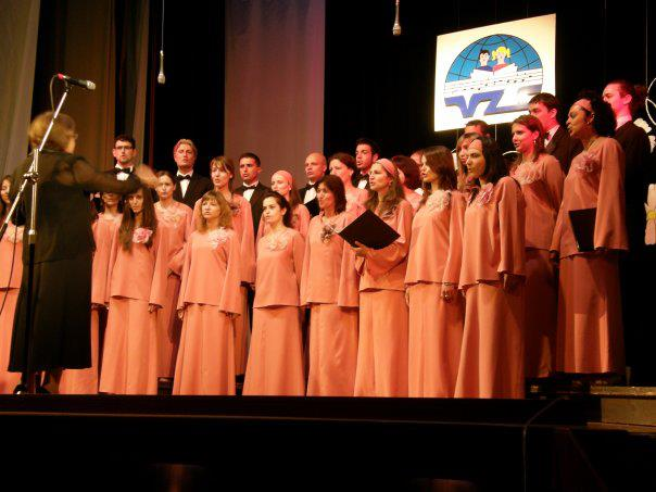 SAVOV_choirKANTILENA.jpg